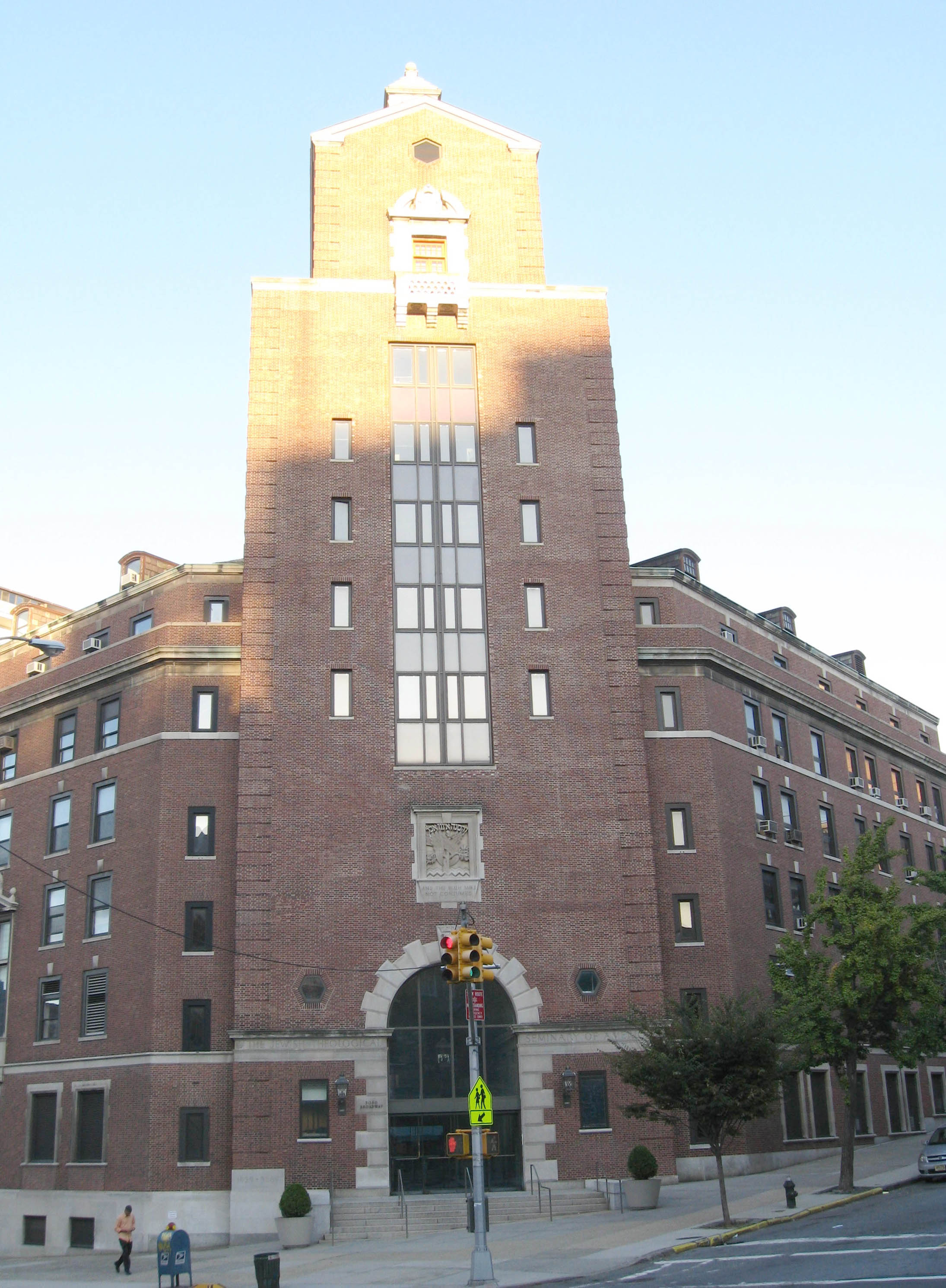 Looking northeast across 122nd Street from Broadway median, at Jewish Theological Seminary of America on a sunny late afternoon. ZIP 10027.